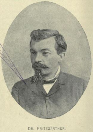 Fritzgaertner was born in Prussia in 1849. He studied at the universities of Tübingen, Freiberg and Stuttgart, specializing in geology. Later he emigrated to the United States and devoted himself to scientific work. He was assistant mineralogy at the State Museum of New York around 1877. He served as a geologist and inspector general of Mines of the Government of Honduras at the end of the 19th century. He was also editor of Honduras Progress, a biweekly newspaper printed in Honduras.